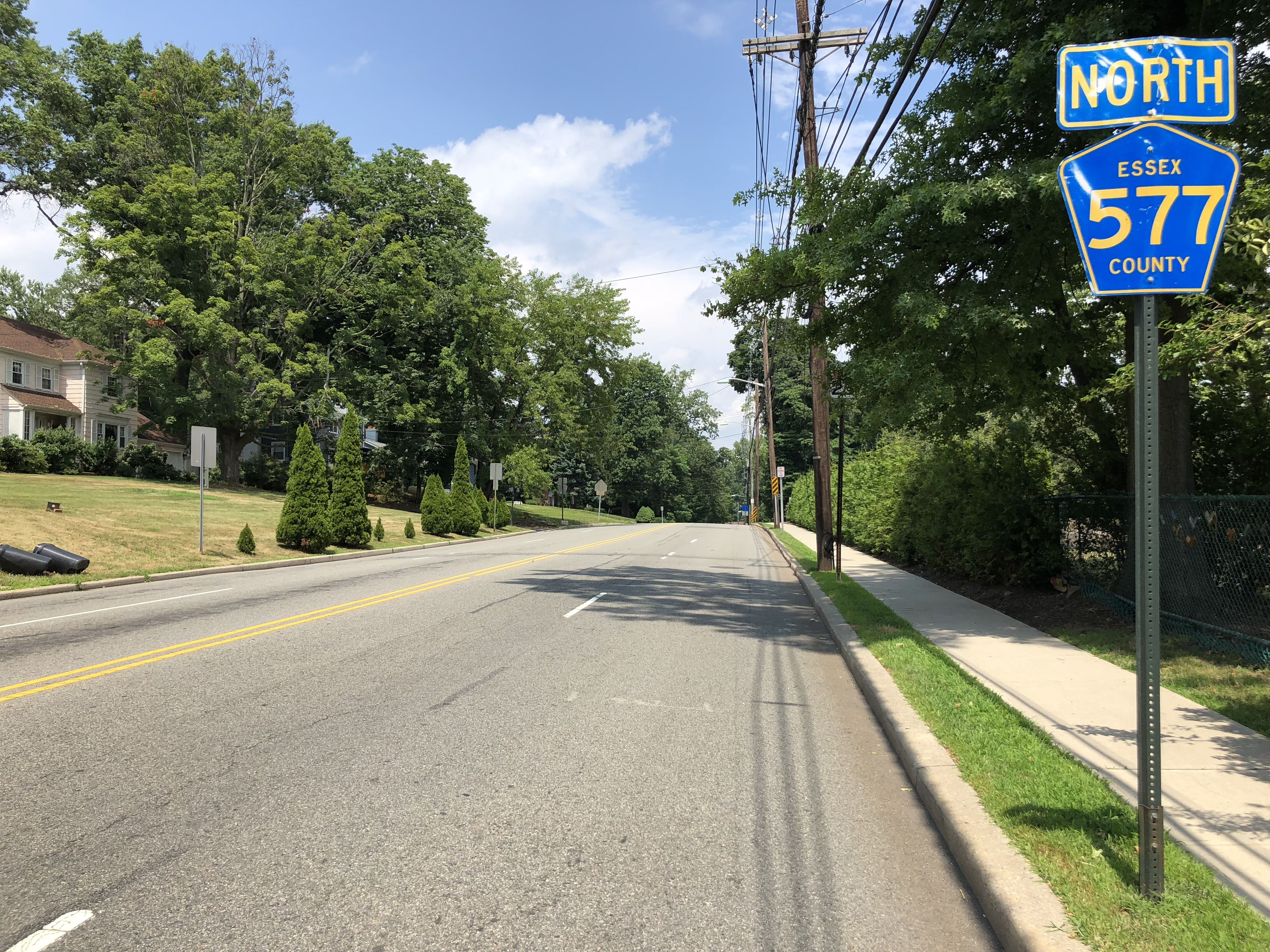 View north along Essex County Route 577 (Gregory Avenue) just north of Essex County Route 508 (Northfield Avenue) in West Orange Township, Essex County, New Jersey